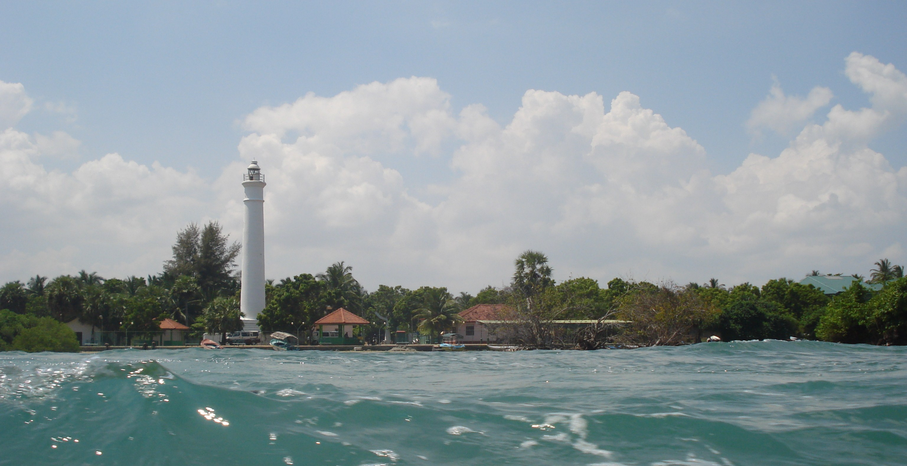 A view of the Batticaloa Lighthouse from sea.